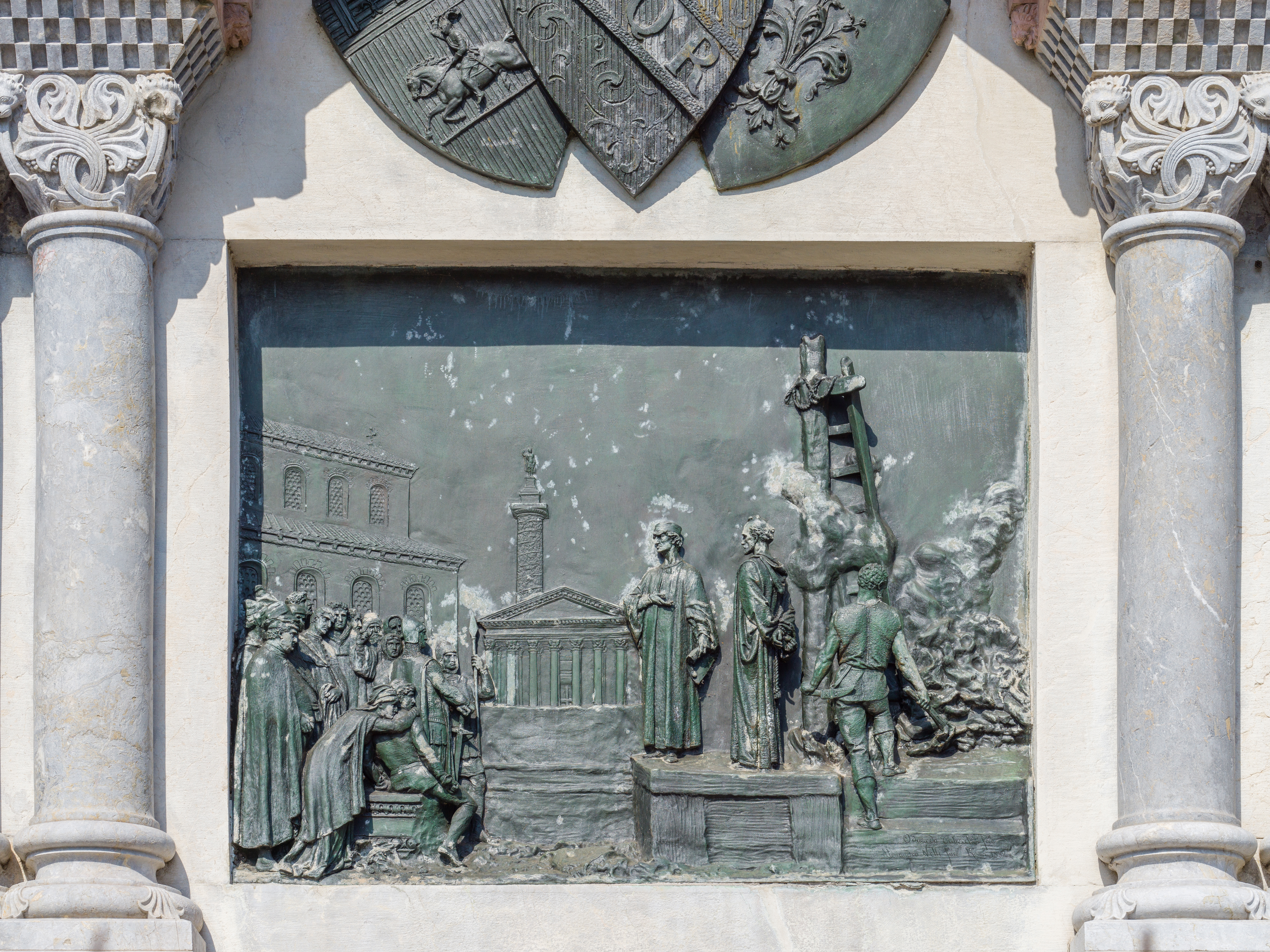 Bronze relief by Odoardo Tabacchi on Piazzale Arnaldo square in Brescia.